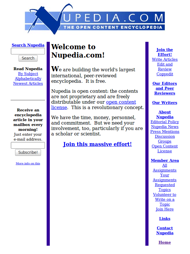 screenshot from Internet Archive.